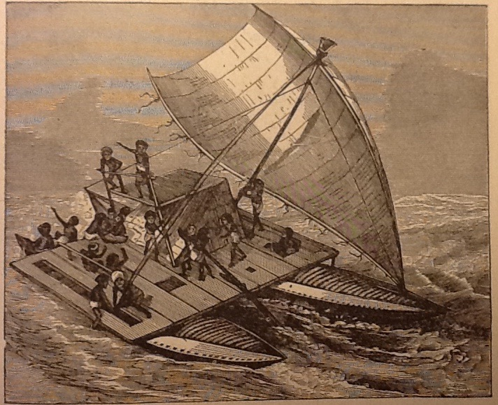 A Papuan Sail Boat.